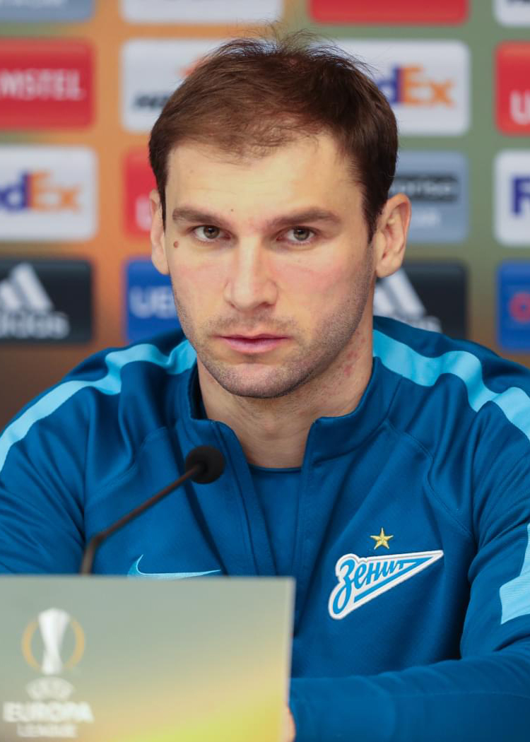 15.02.2017. Бельгия, Андерлехт, «Констант Ванден Сток». Тренировка основного состава ФК «Зенит» перед матчем Лига Европы УЕФА 2016/17, 1/16 финала, «Андерлехт» — «Зенит».